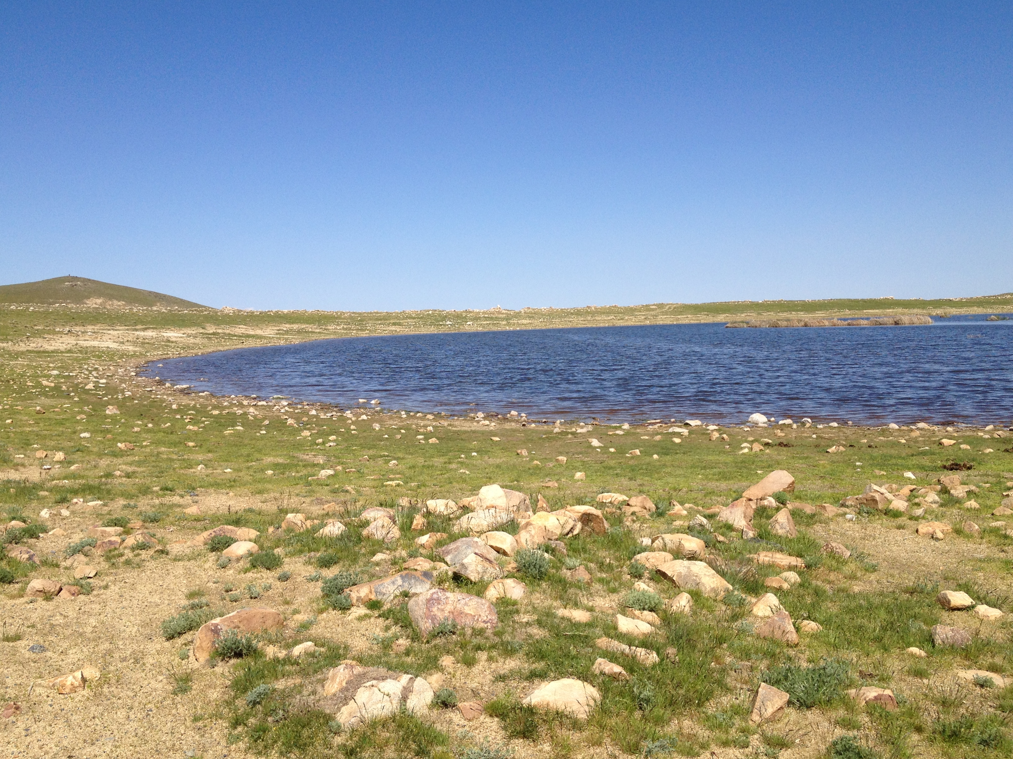 North beach of Fazilman lake Oʻzbekcha/ўзбекча: Fazilman ko'li. Shimoliy qirg'og'i / Фазилман кўли. Шимолий қирғоғи